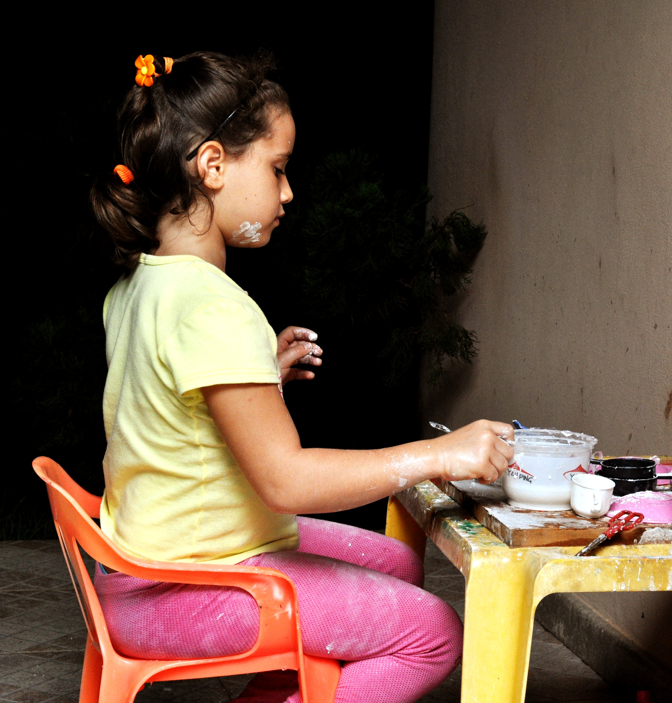 Child playing with plaster.